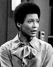 Photo of Susan Lanier, Olivia Cole and Ned Beatty from the short-lived television program Szysznyk.